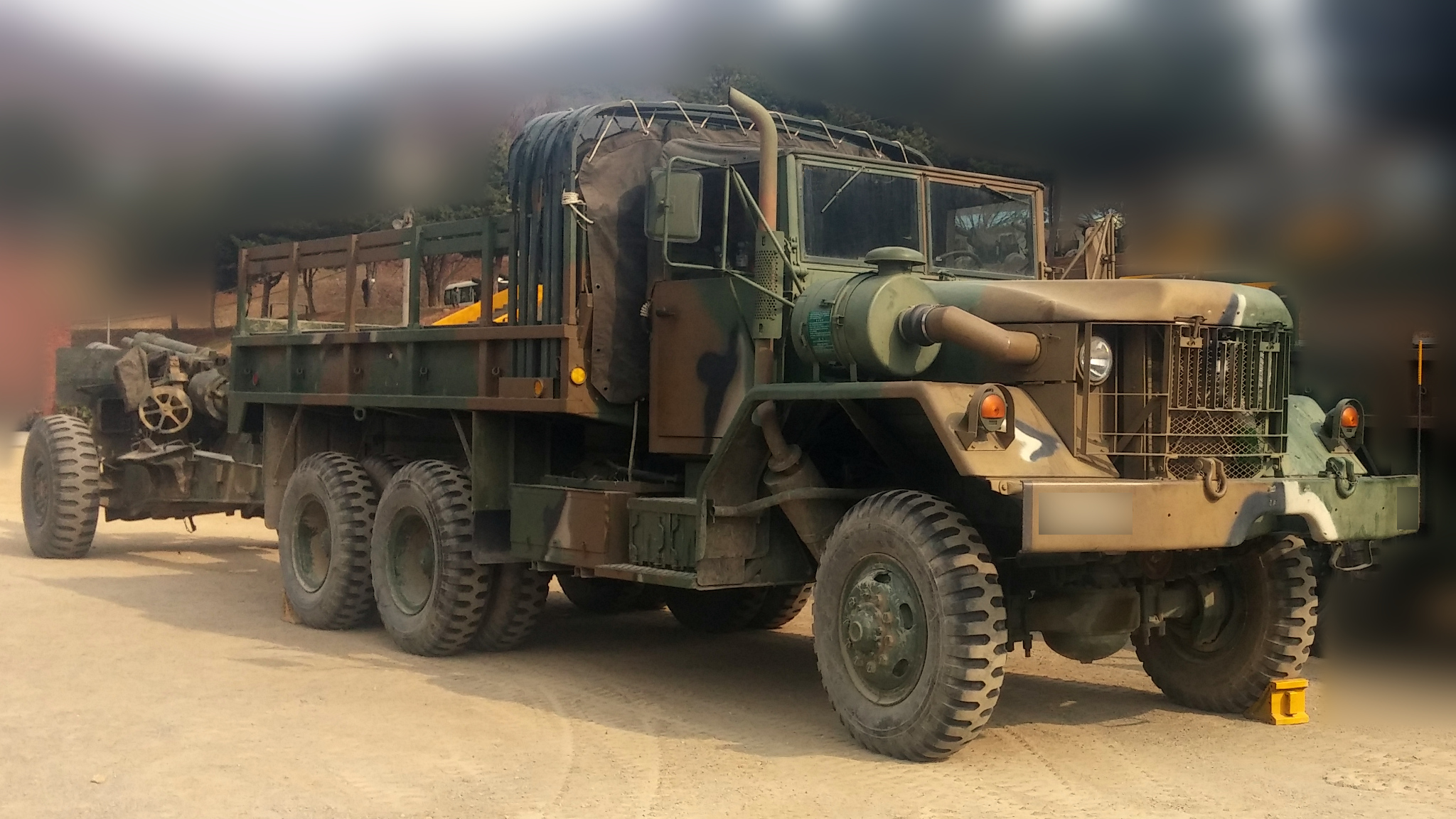 K-711 5-ton Truck, towing M114 155 mm howitzer